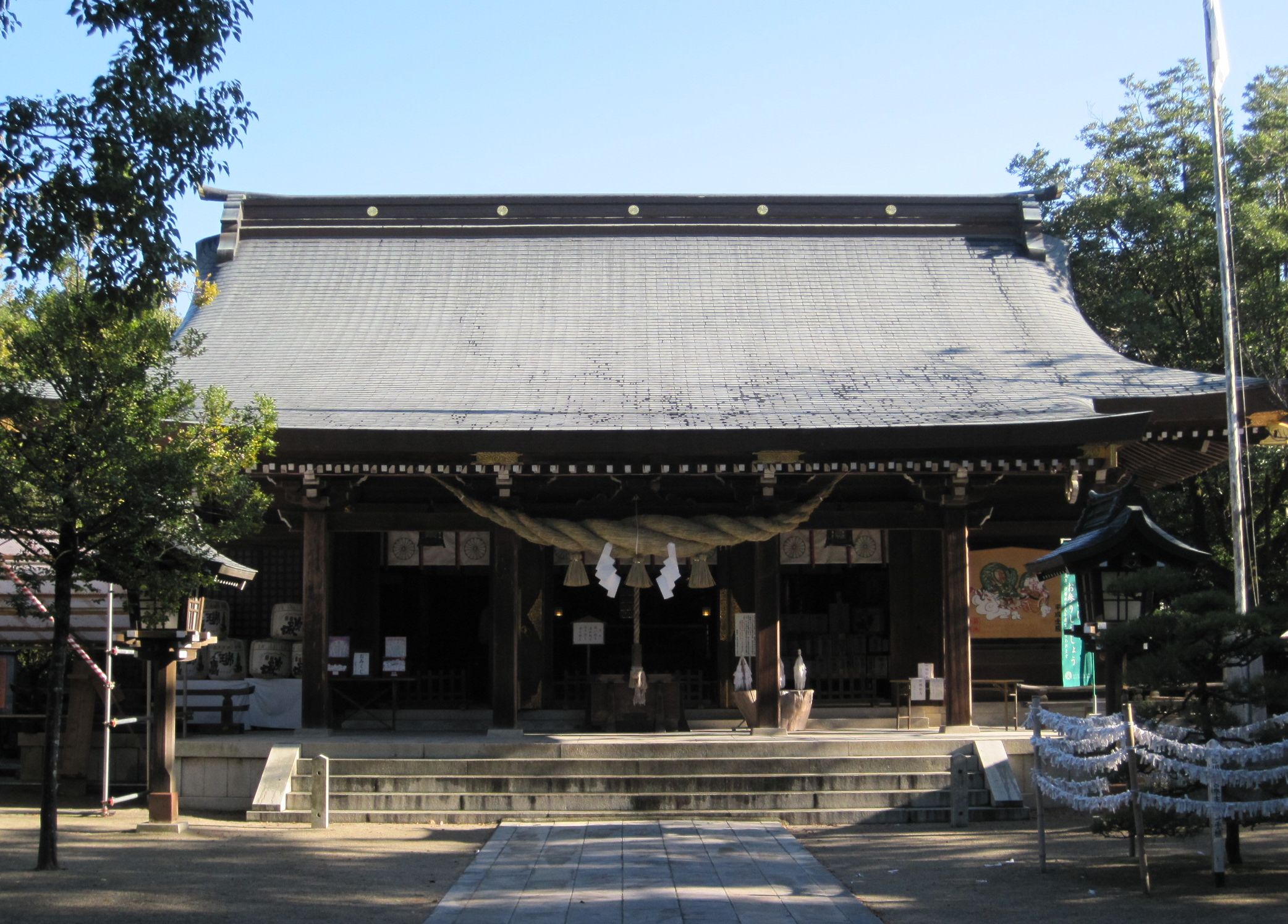 shrine